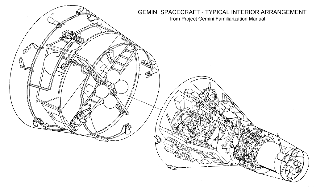 Gemini Spacecraft Interior Arrangement from Gemini Familiarization Manual (December 31, 1964)